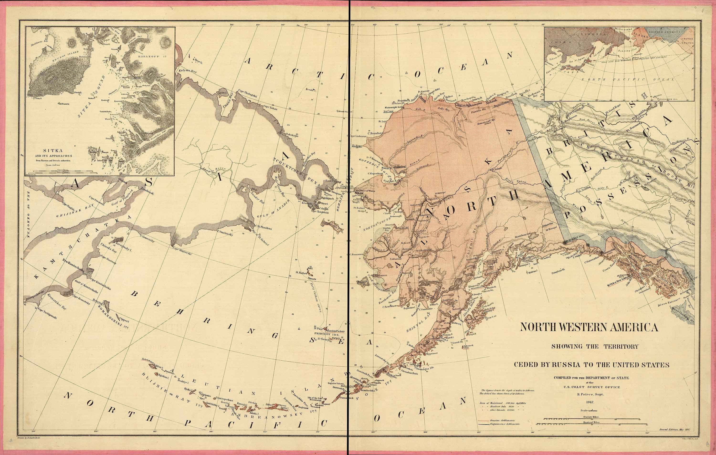 Map of Alaska in 1867